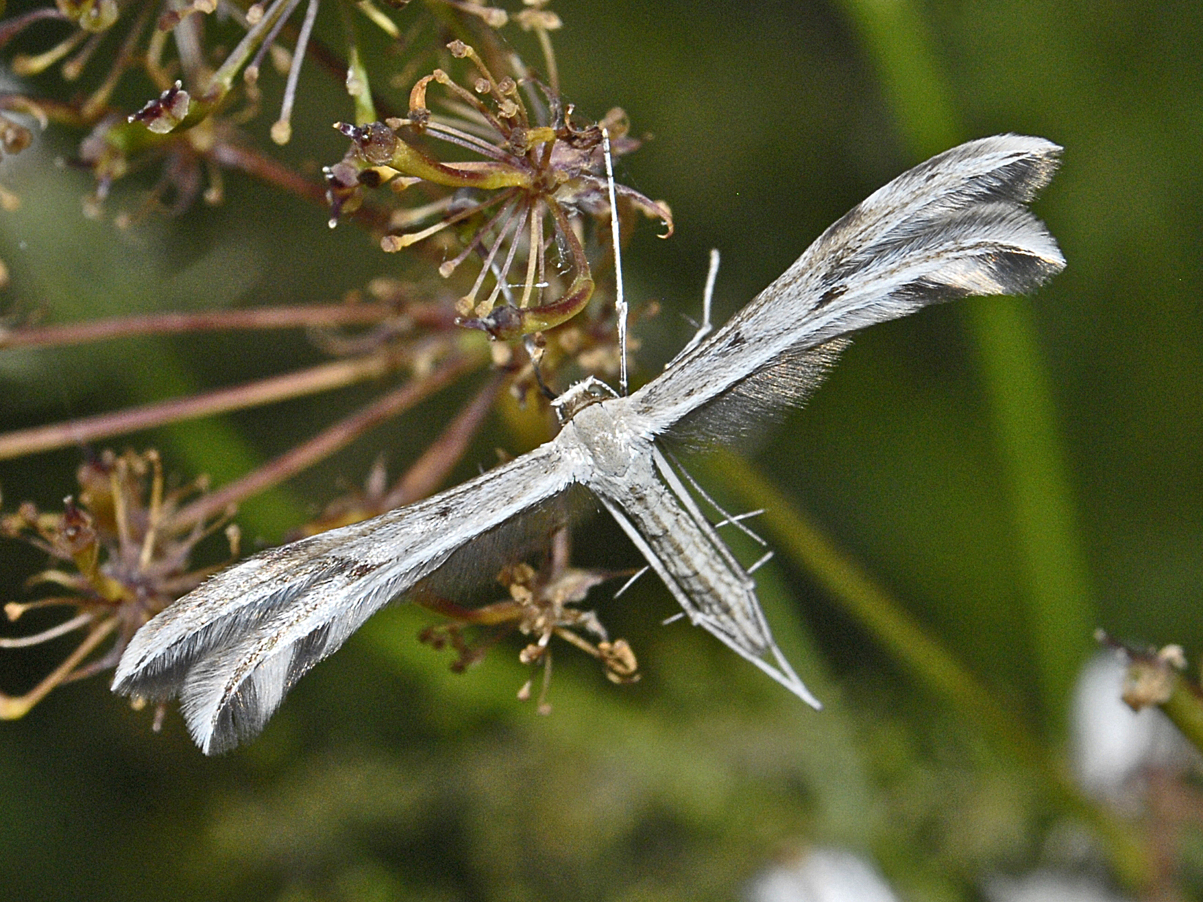 Calyciphora cf. nephelodactyla. Bousson, Torino, Italy